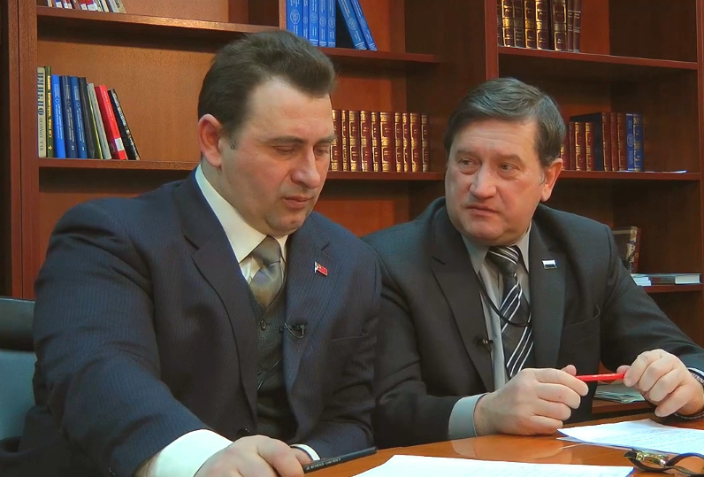 Maxim Kalashnikov, a Russian writer, and Rodina: Common Sense Party secretary together with Vladimir Khomyakov, Narodny Sobor Head of the council, during the video broadcast The National Issue (ep. 20.) February 25, 2011.